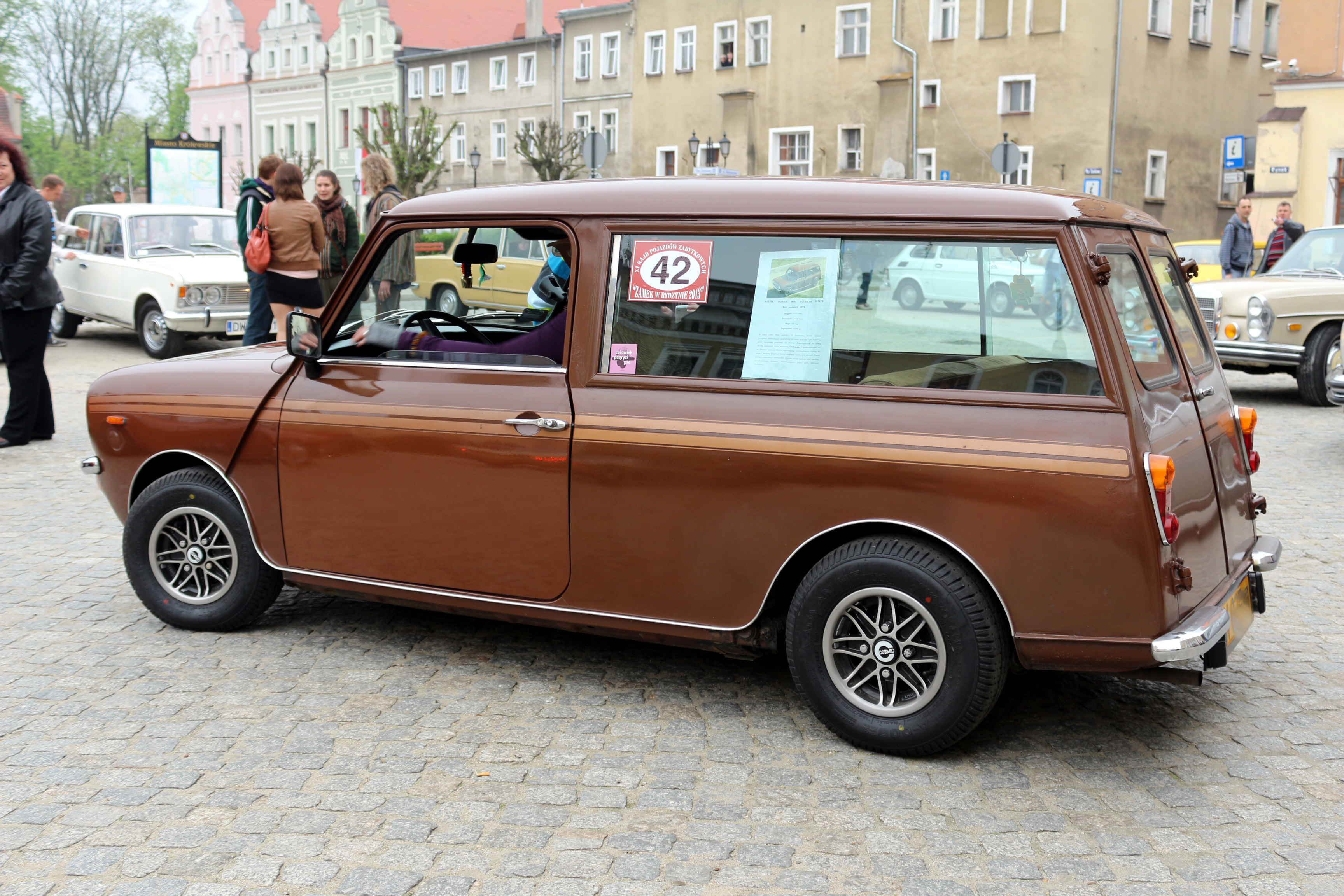 Austin Morris BMC Mini Clubman 1978